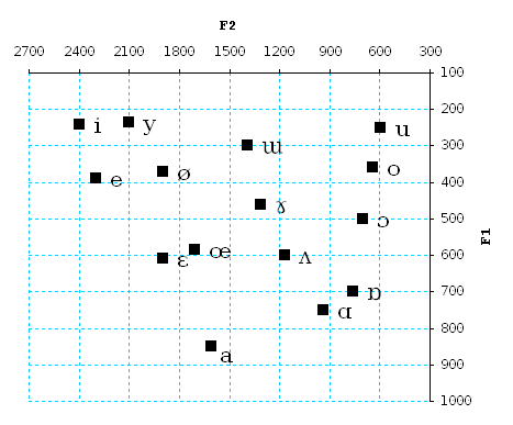 Average vowel formants F1 and F2